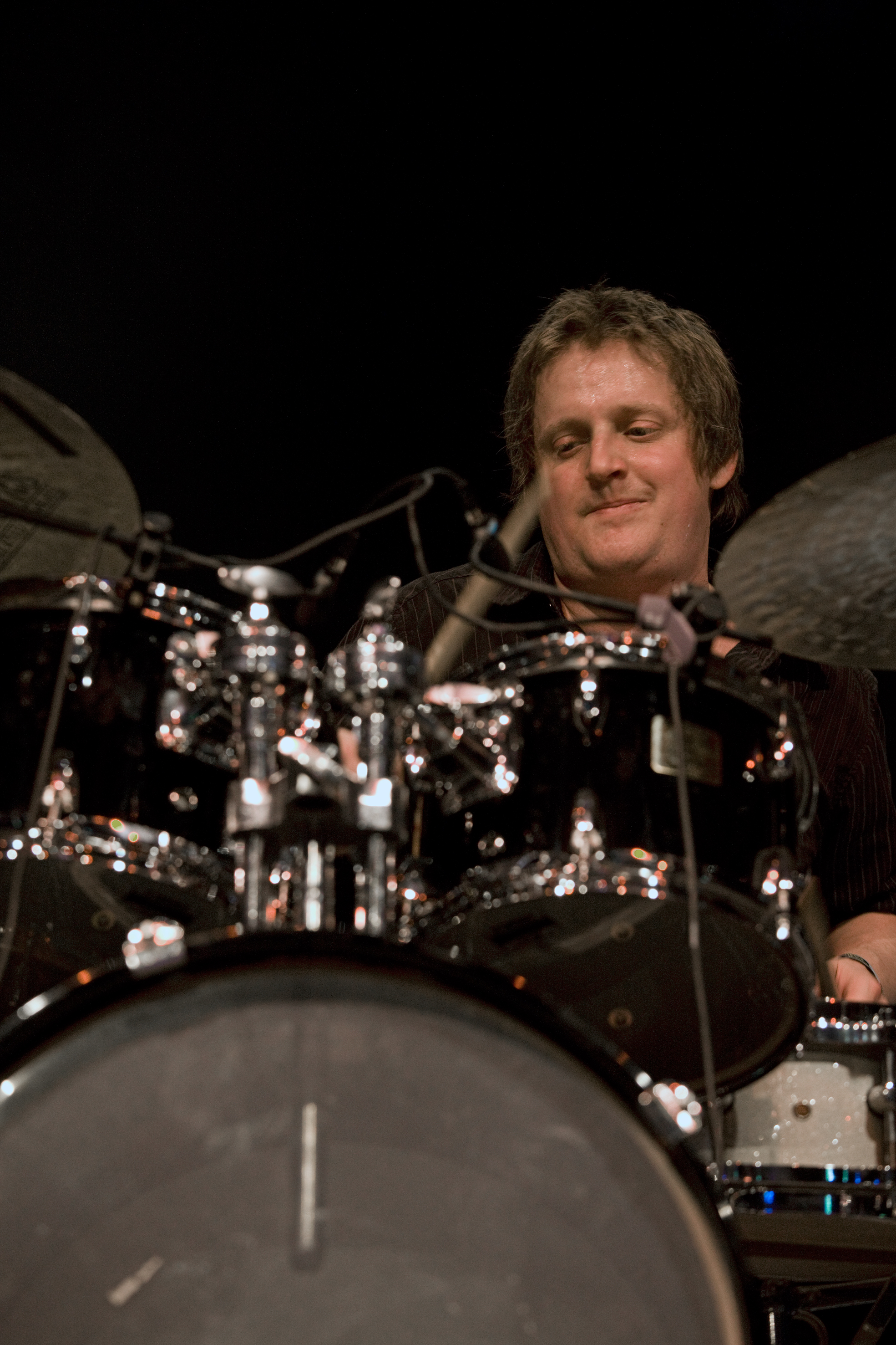 Jim Black, 12. Mai 2008, Moers Festival